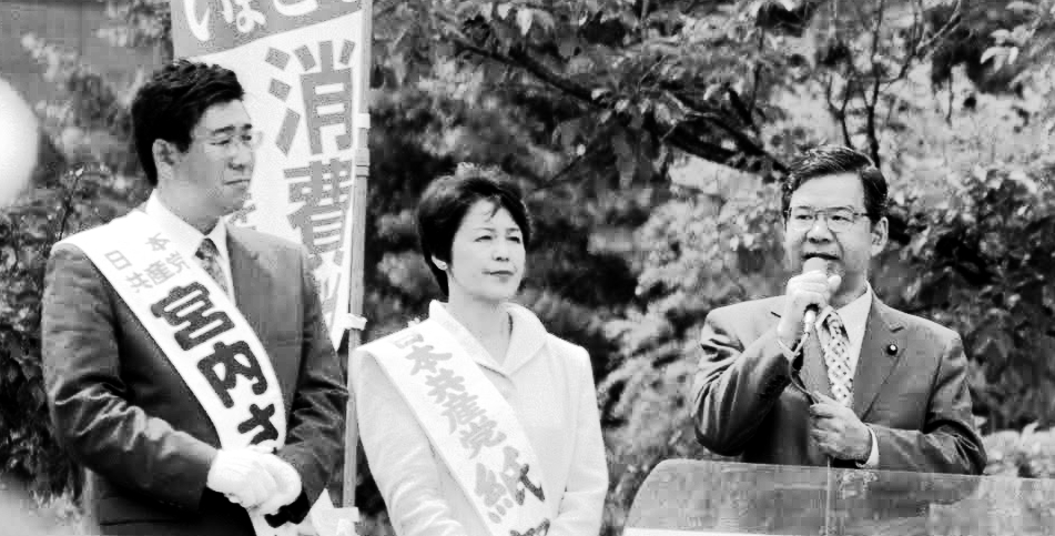 Kazuo Shii, President of the Japanese Communist Party, made a campaign speech for Satoshi Miyauchi and Tomoko Kami, Candidates for Members of the House of Councillors, in Hokkaidō on July 18, 2001.